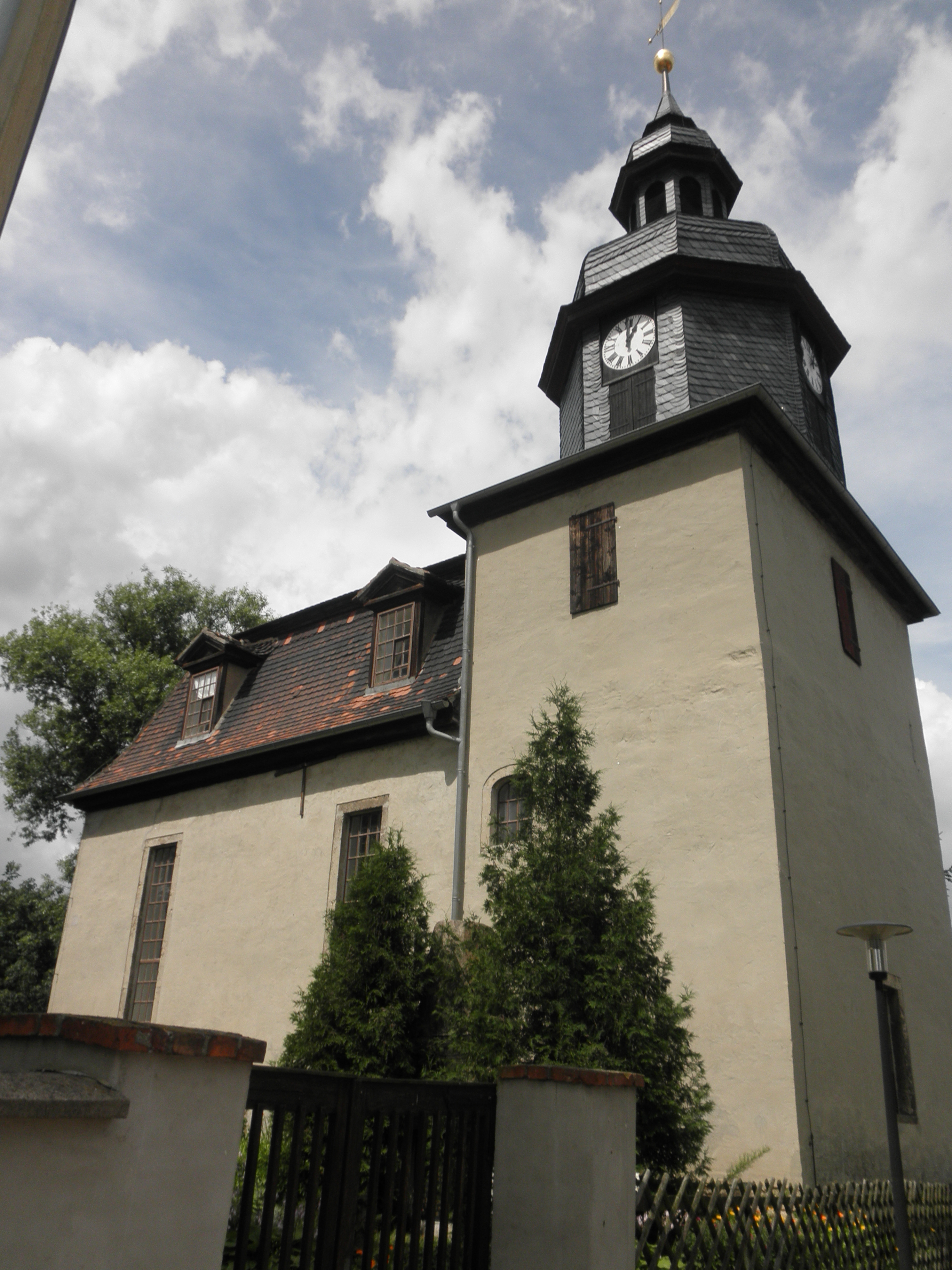 Church in Kösnitz (Saaleplatte) in Thuringia